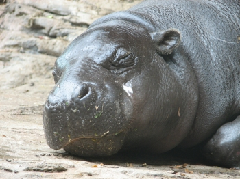 Pygmy Hippo at Louisvile Zoo